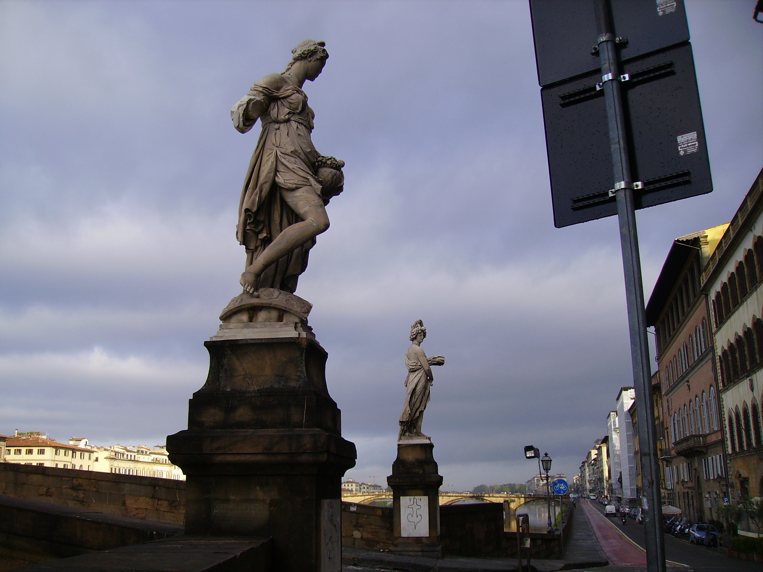 Allegory of Spring by Pietro Francavilla and Allegory of Summer by Giovan Battista Caccini. Photograspher: Yair Haklai. April 2008